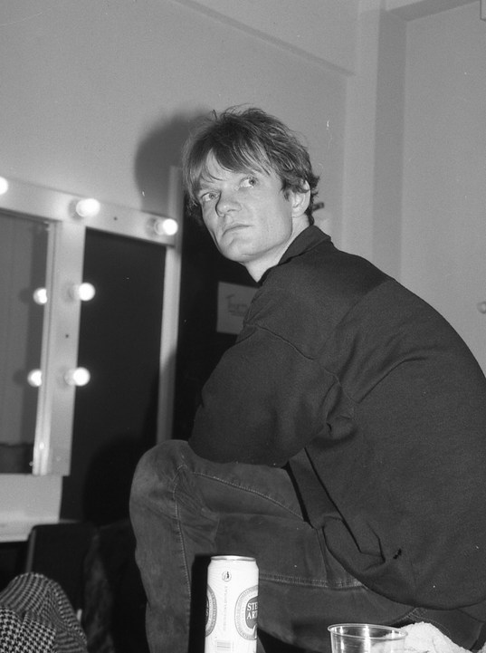 Guy Chadwick of the band "The House of Love". Taken backstage after the gig at Southampton University, Southampton, UK, 03 June 1989